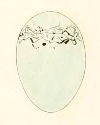 « Saltator caerulescens » = Saltator coerulescens (Greyish Saltator) - egg